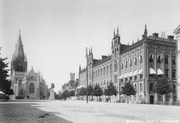 The town hall, Örebro, Sweden